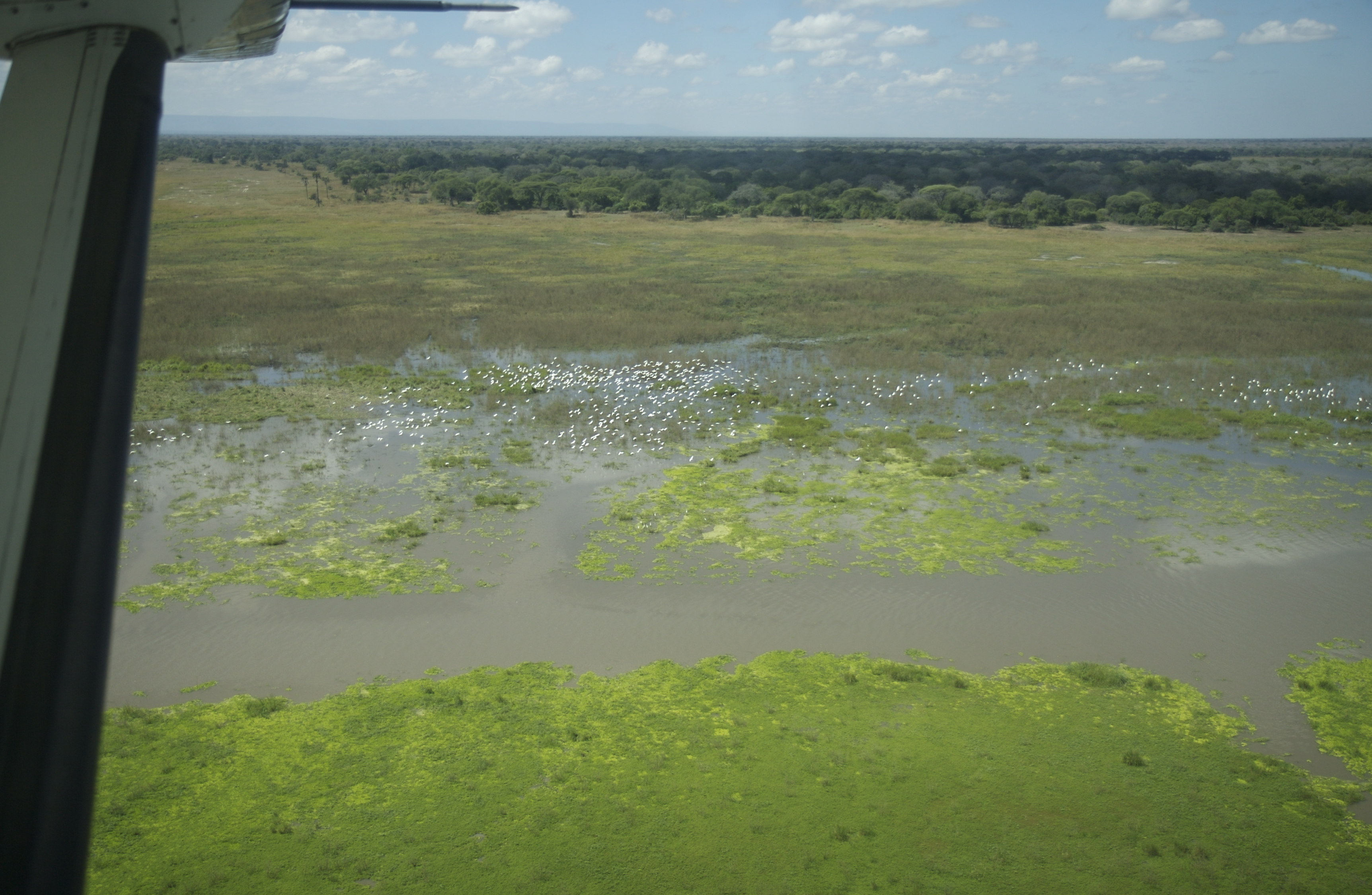 Coming in for landing...